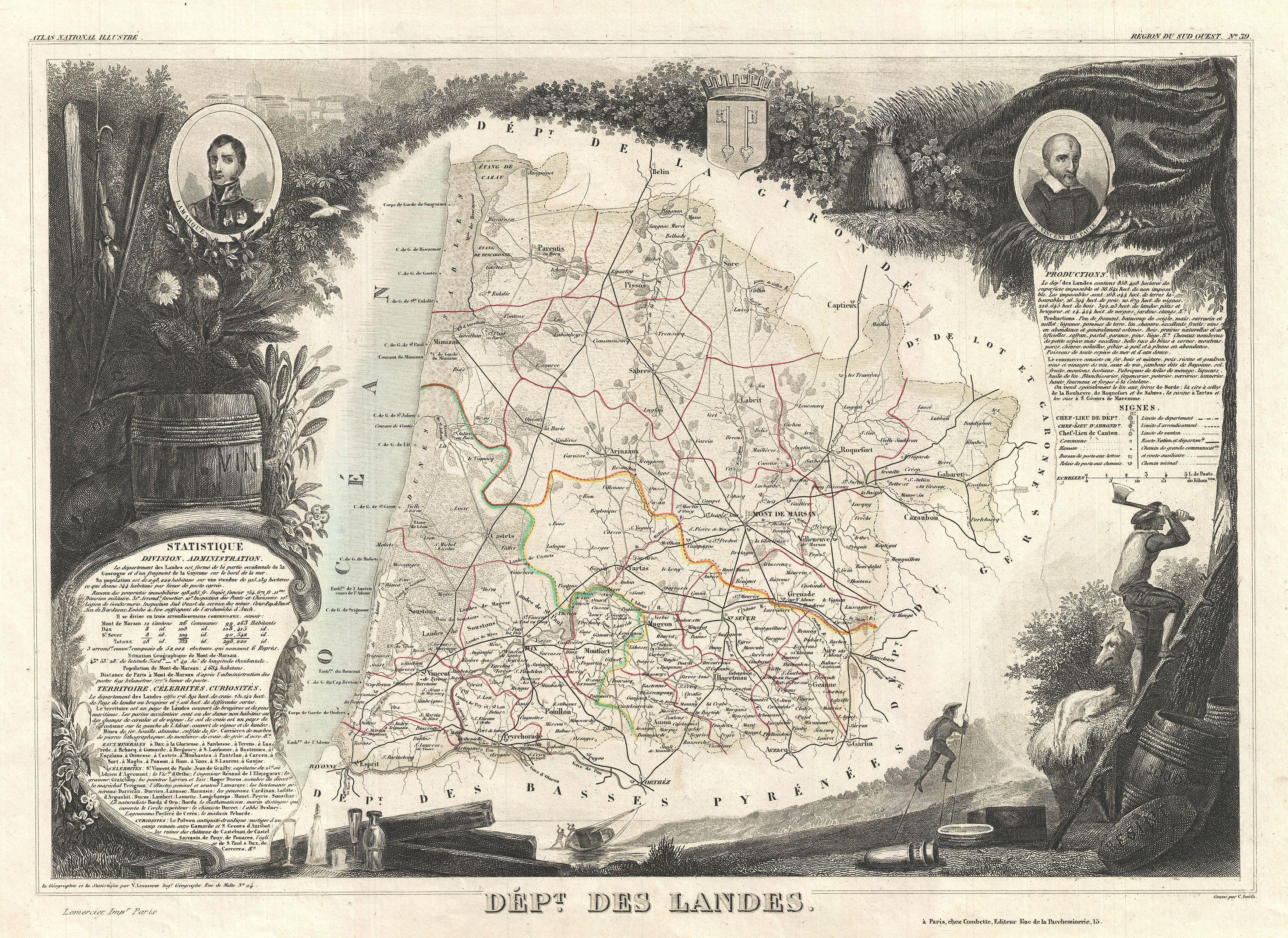 This is a fascinating 1852 map of the French department Landes, France. This area is known for its production of Chalossais, a white cow cheese with a gentle, acidic edge. Tursan wine is also distilled here, along with Armagnac brandy. The whole is surrounded by elaborate decorative engravings designed to illustrate both the natural beauty and trade richness of the land. There is a short textual history of the regions depicted on both the left and right sides of the map. Published by V. Levasseur in the 1852 edition of his Atlas National de la France Illustree.